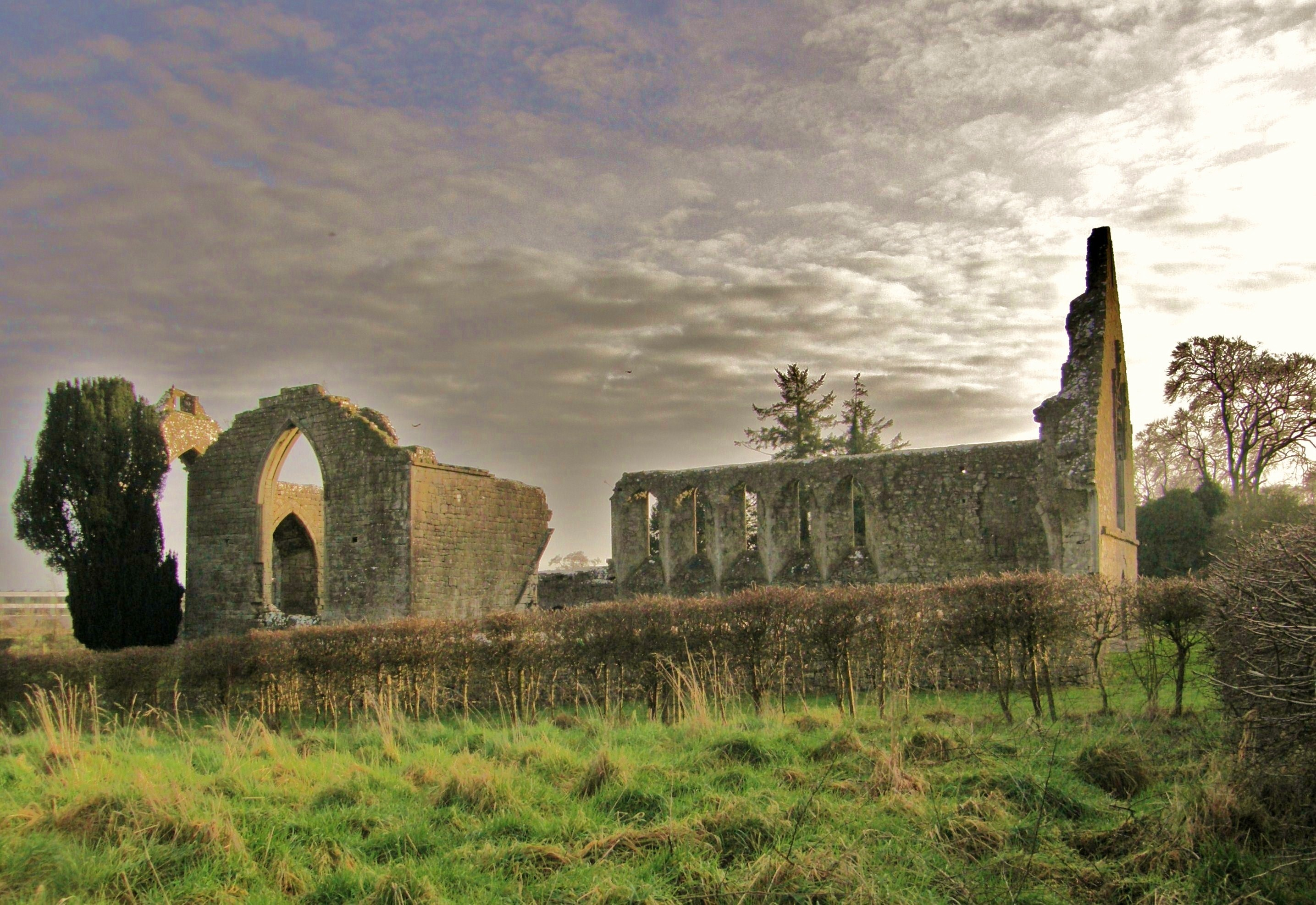 Roscommon Abbey Friary